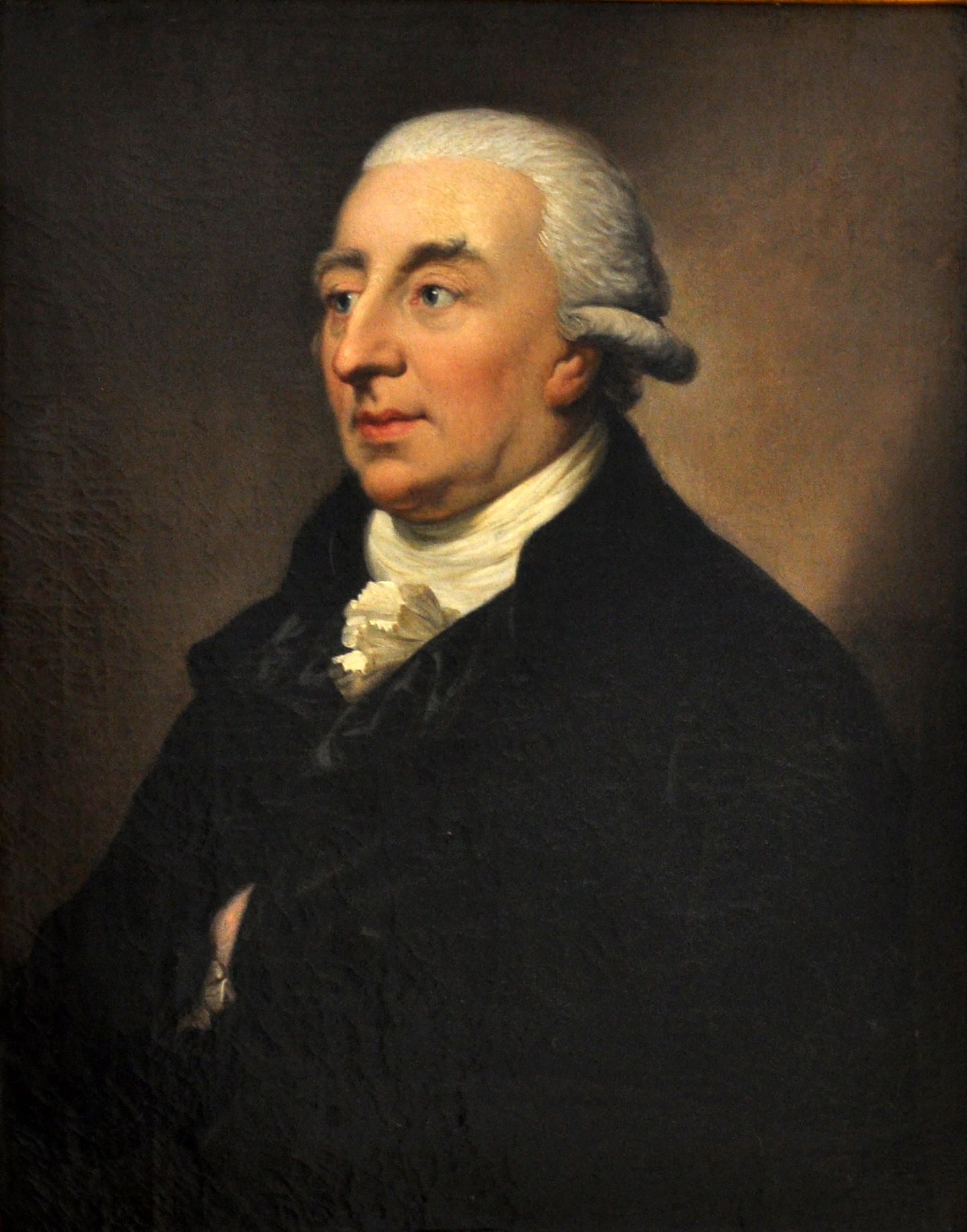 Johann Christoph Adelung (1732–1806), German librarian and linguist